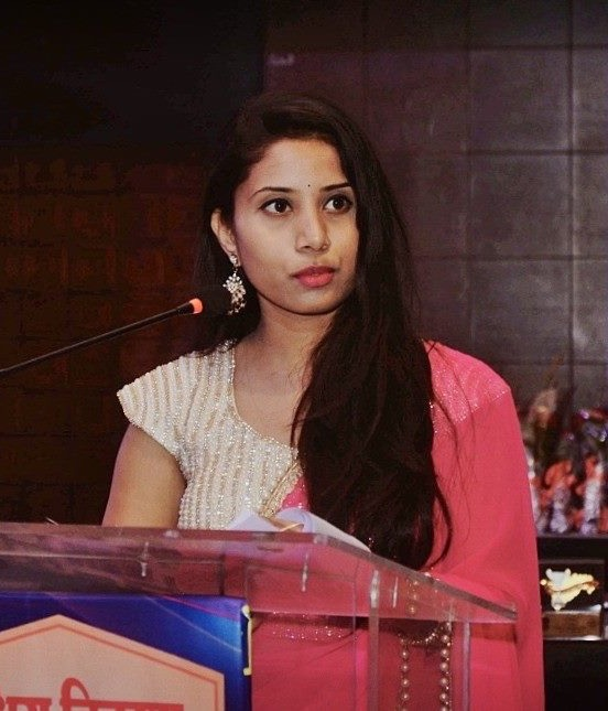 Nishigandha Kunte at award function